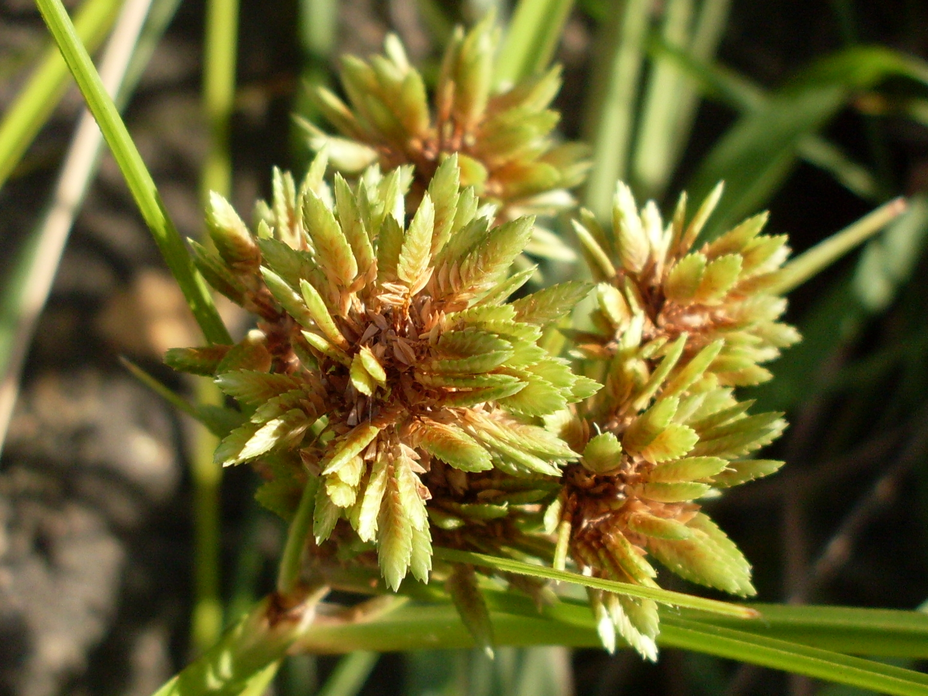 Cyperus eragrostis is a weed of wet places. Como NSW Australia, December 2008.